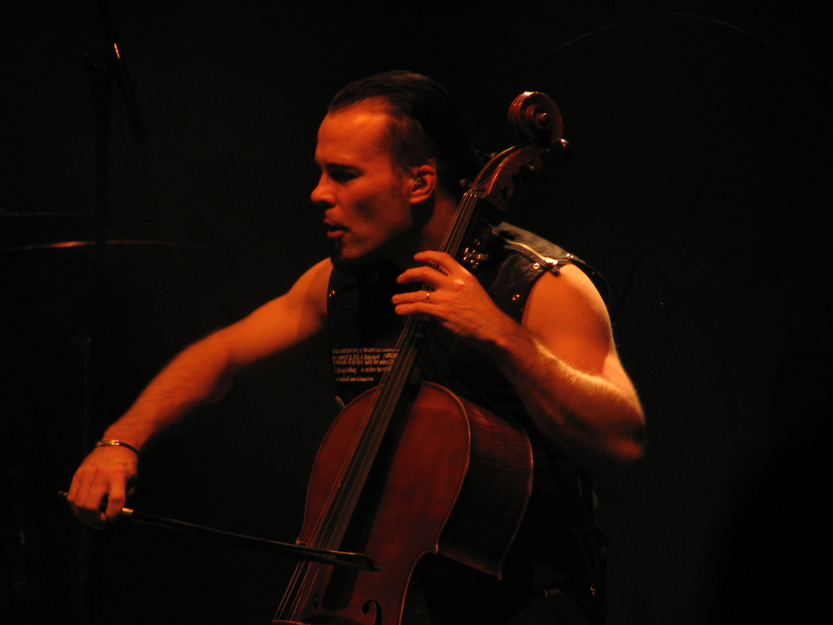 Lötjönen with Apocalyptica. 12th October 2007, Pakkahuone Hall, Tampere, Finland.